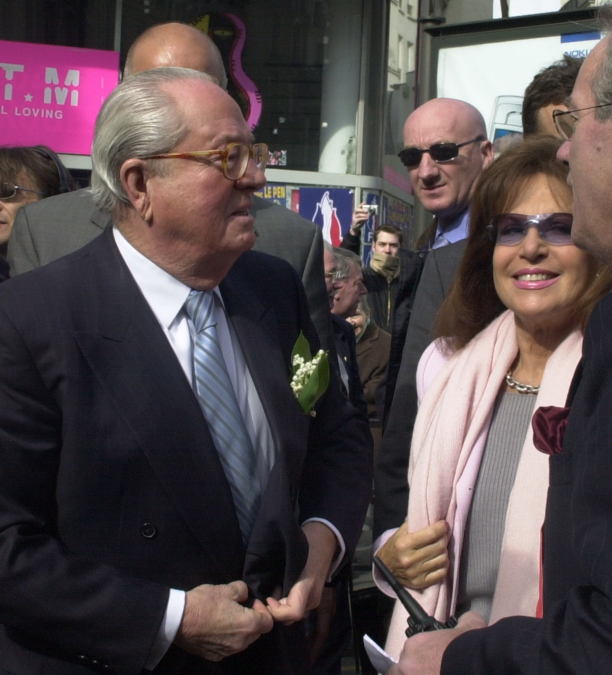 Mister and Lady Jany Le Pen